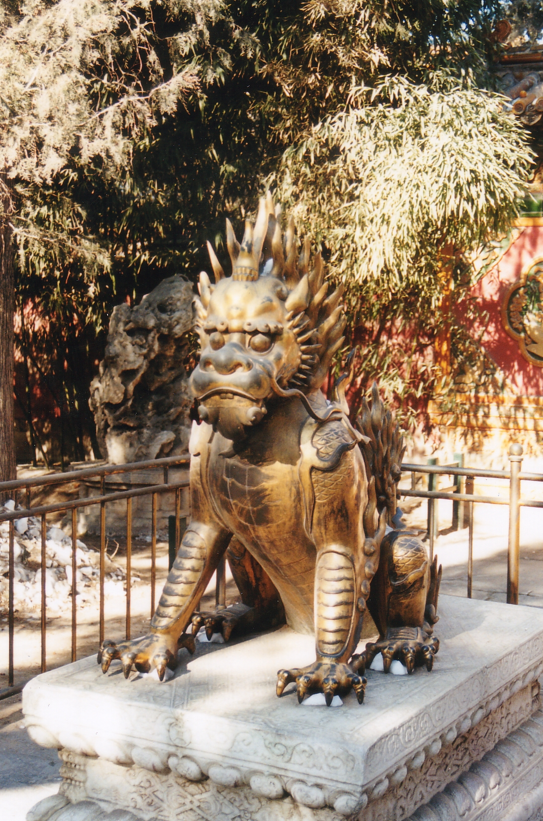 I`m an author of this picture, done in Peking in 2004.